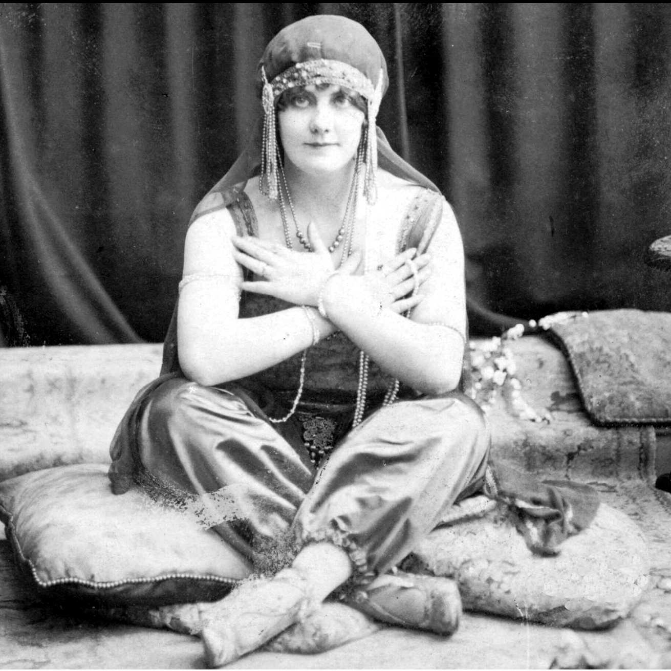 Dutch opera singer Beppie de Vries in the opera De Roos van Stamboul